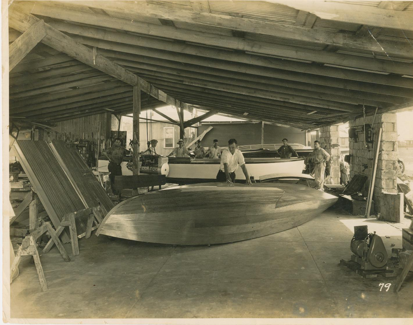 Family Photo Category:Images of boats Summary Family Photo